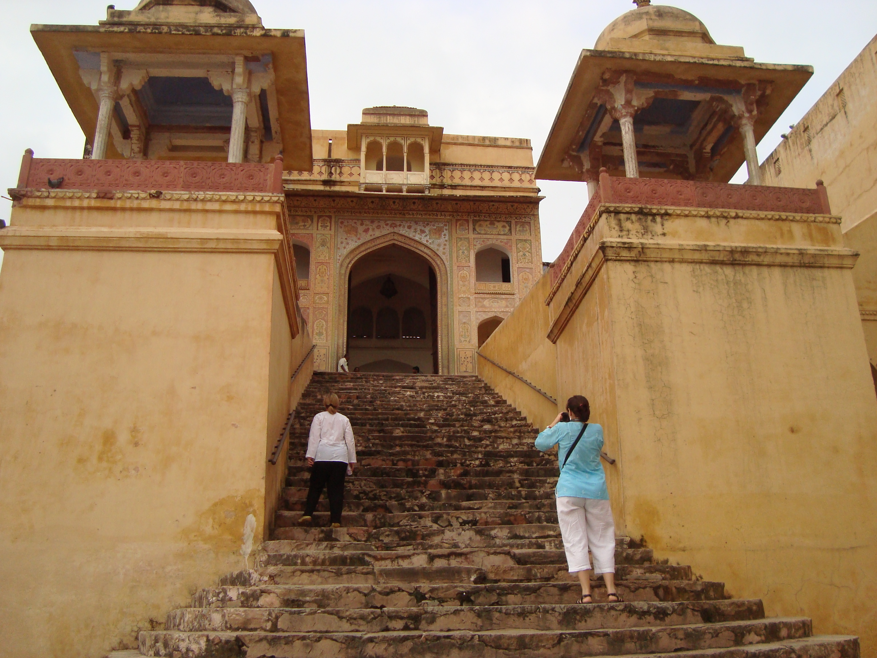 Steps lead to the Singh Pol (Lion Gate) of Amber Fort